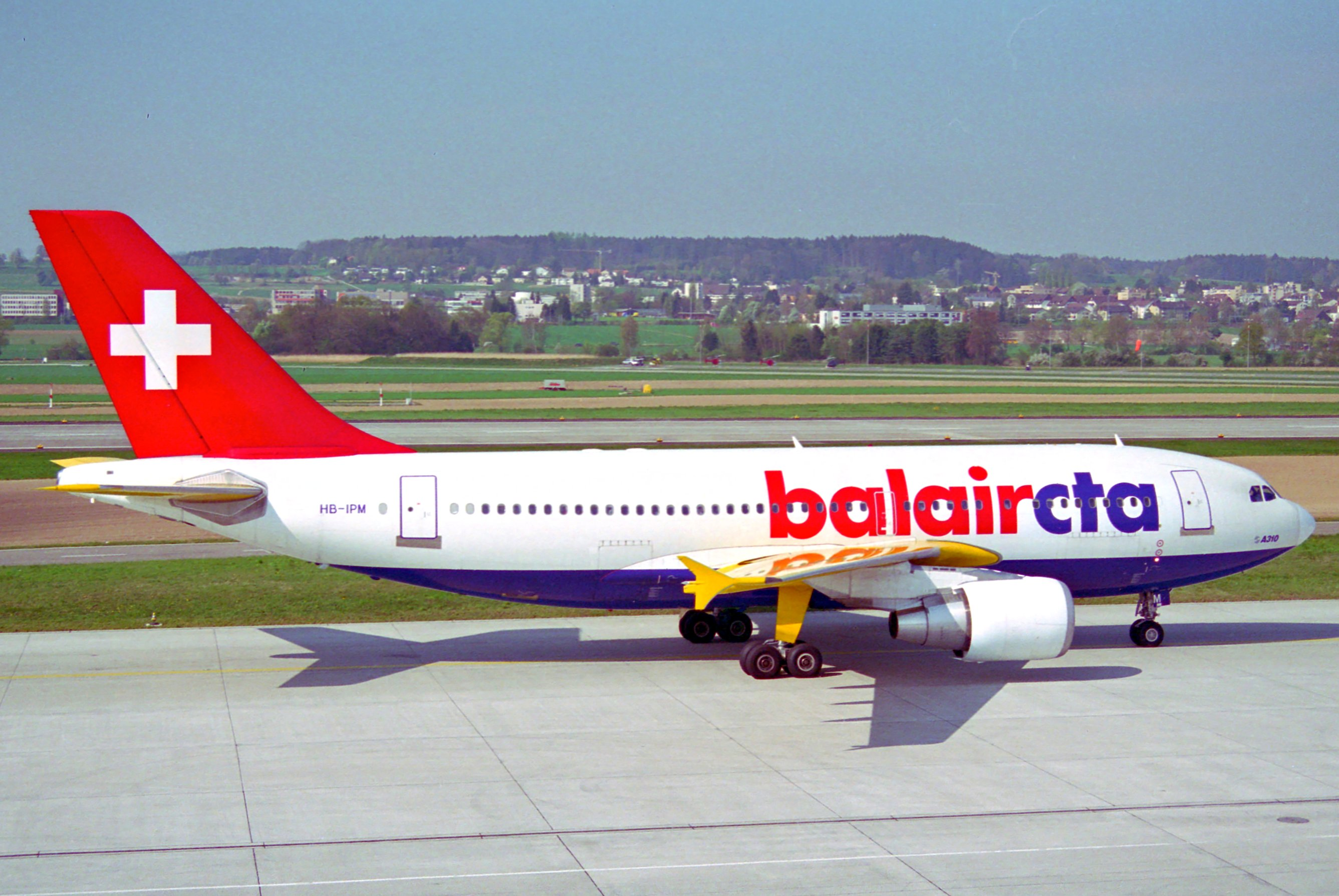 First flight: February 20, 1992...(c/n 642) 30/04/1992 Balair/CTA HB-IPM 25/11/1999 Oman Air A4O-OD 04/07/2003 Air Plus Comet EC-IPT 01/01/2007 Air Comet EC-IPT stored 06/2009 27/02/2010 Biman Bangladesh S2-AFT